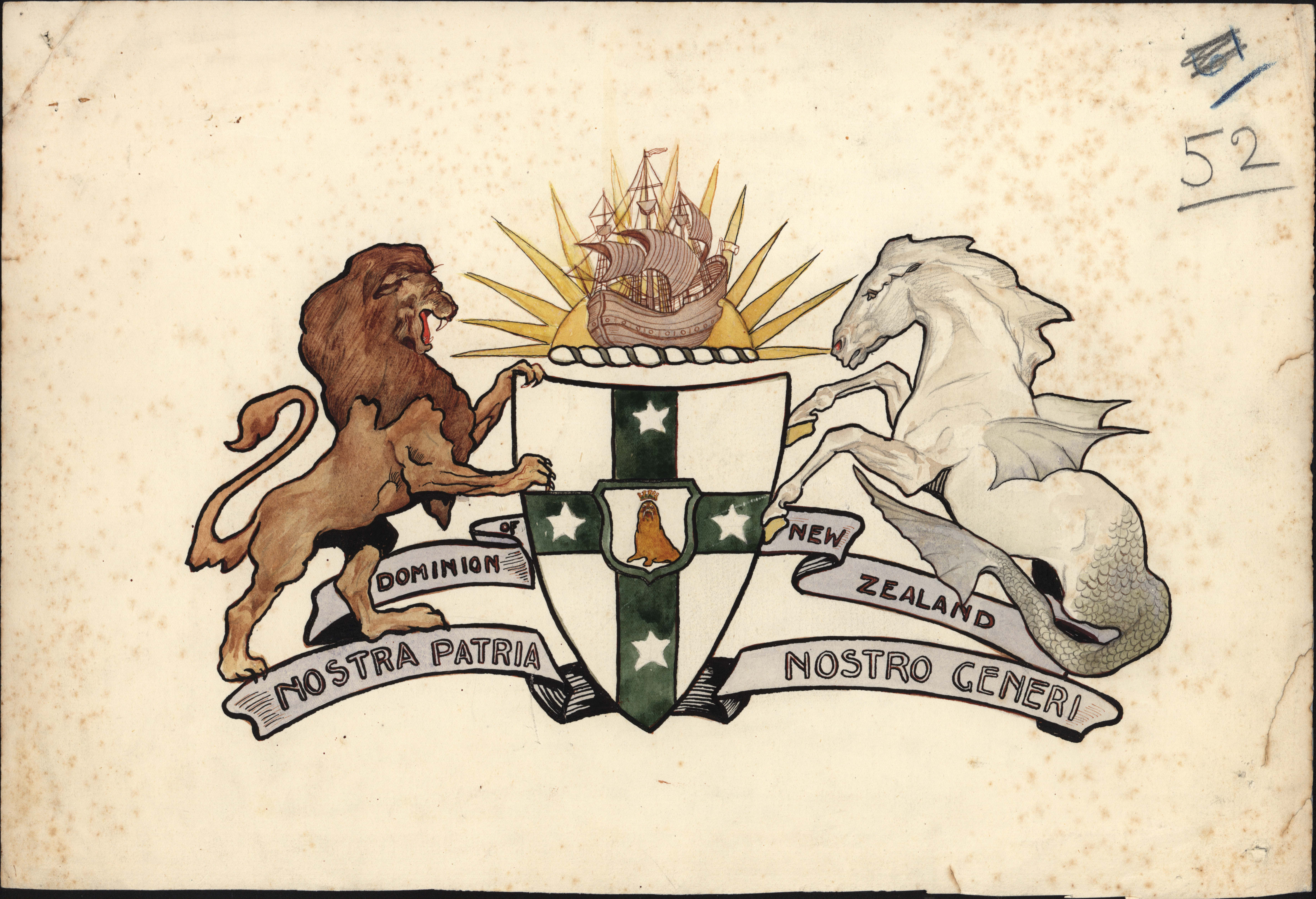 In 1908 a competition was held to design the first New Zealand Coat of Arms. Previously New Zealand used the coat of arms of the United Kingdom, but after Dominion status was given in 1907 a new coat of arms was considered to be appropriate. 75 design submissions were entered in the competition, most of which are held at Archives New Zealand. Three designs were selected for final judgement in England, with the winner being James Mcdonald from the Department of Tourism and Health Resorts. On 26 August 1911 a royal warrant was issued for the use of the coat of arms, and McDonald's design was used until 1956. This entry, 'Nostra Patria Nostro Generi', is by an unknown designer and was one of the final three selected. It is representative of the wide variety of imagery and colourful symbolism that characterised the competition entries. As the accompanying notes on the design indicate, it features traditional heraldic imagery of a hippocamp, a lion rampant and a 'sea-lion guardian'. These competition entries form part of the ‘Constitutional Papers’ record group which is comprised of records relating to significant constitutional developments of New Zealand. See more of the designs listed on Archway: Archives Reference: ACGO 8341 IA9 30/30 52 More information about past and present versions of the New Zealand Coat of Arms can be found at For updates on our On This Day series and news from Archives New Zealand, follow us on Twitter Material from Archives New Zealand